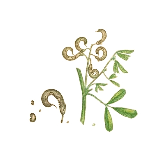 Illustration of Medicago falcata.